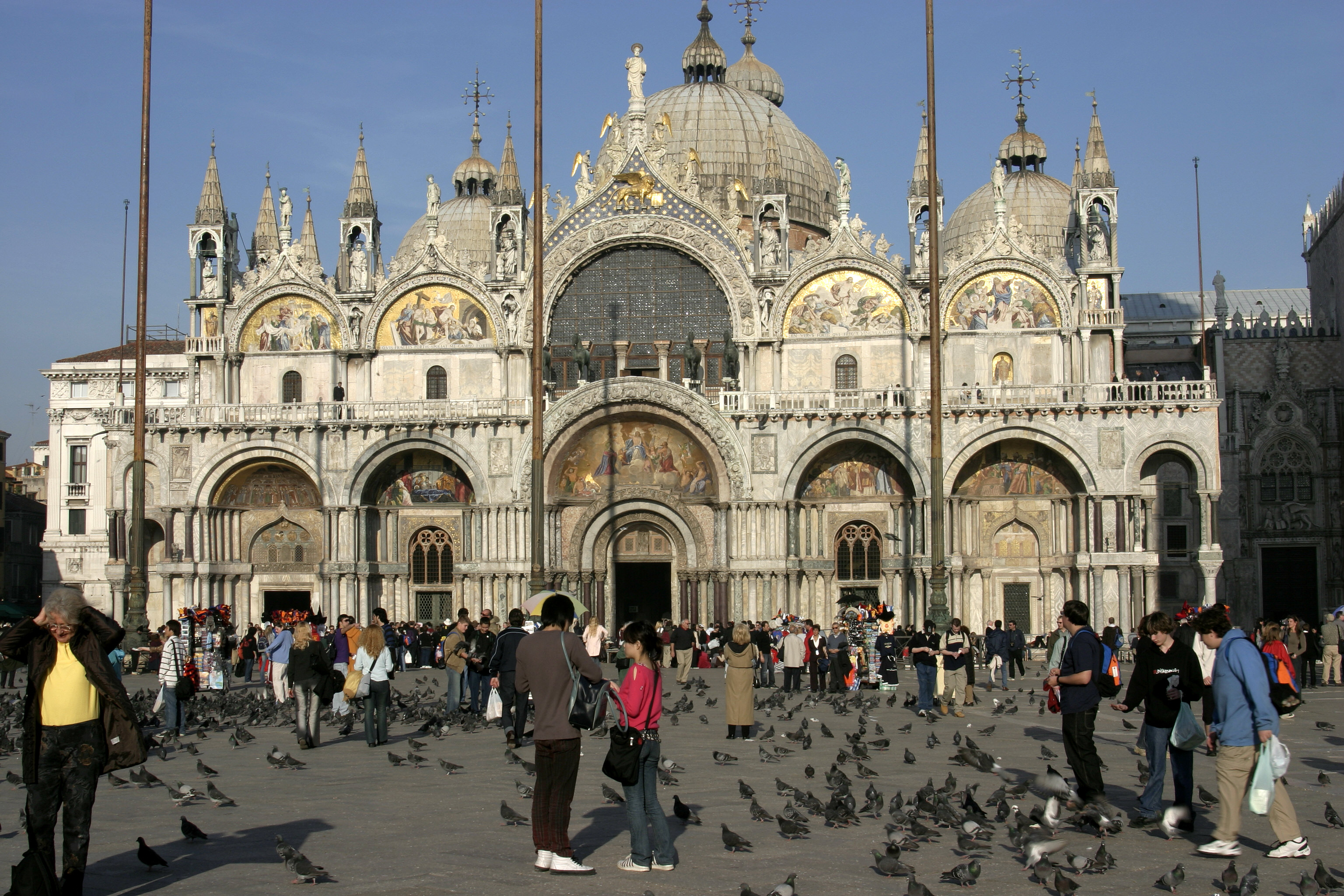 Venice - St. Marc's Basilica